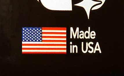 Made in USA label